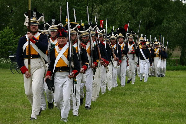 Reconstruction(2006) of Battle of Raszyn(1809)